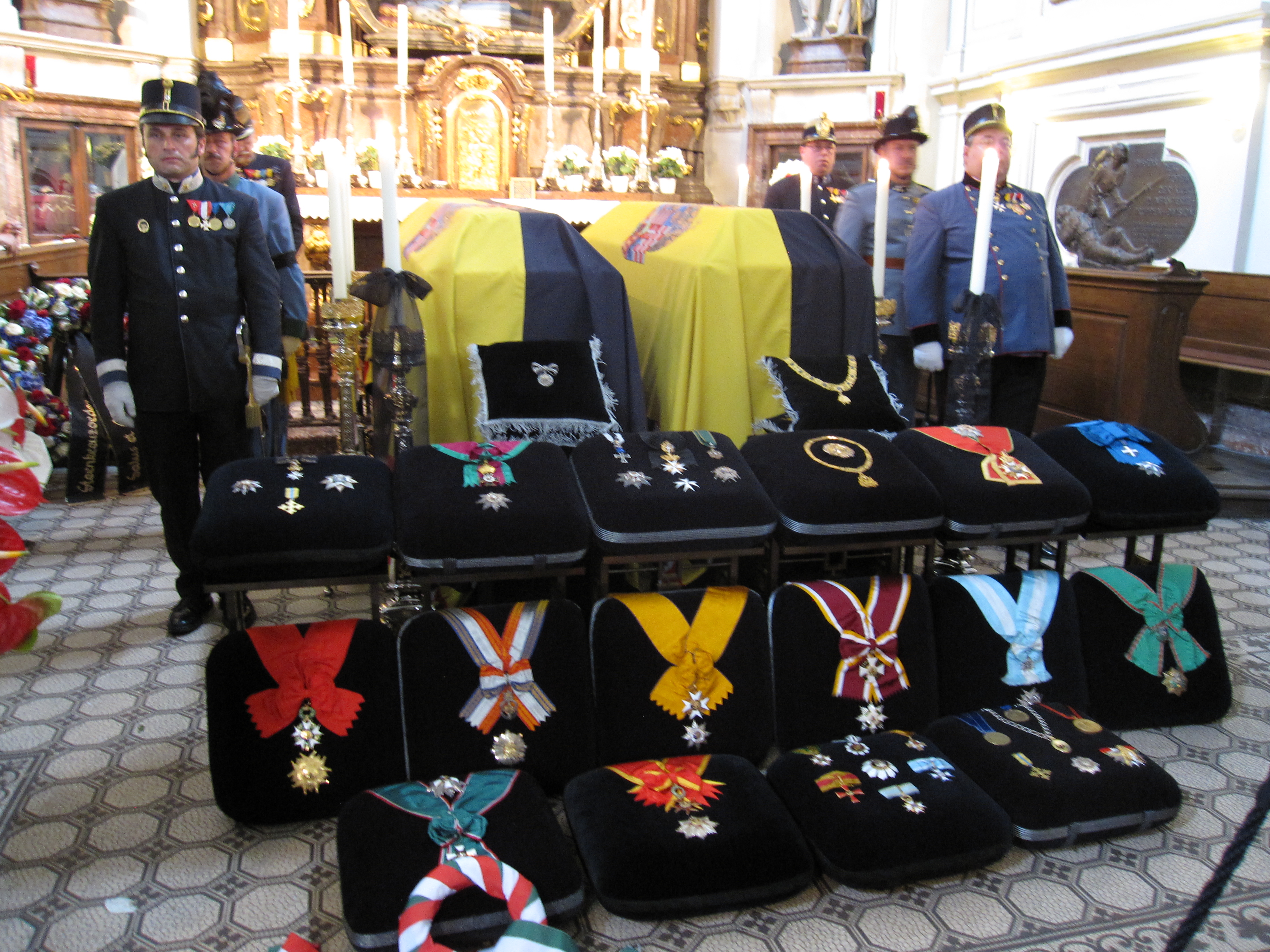 Lying in repose of Otto von Habsburg, heir to the Austrian and Hungarian thrones, and his wife Princess Regina of Saxe-Meiningen, at the Capuchin Church in Vienna on Friday, 15 July 2011. For a list of the orders, honours and decorations present, see here